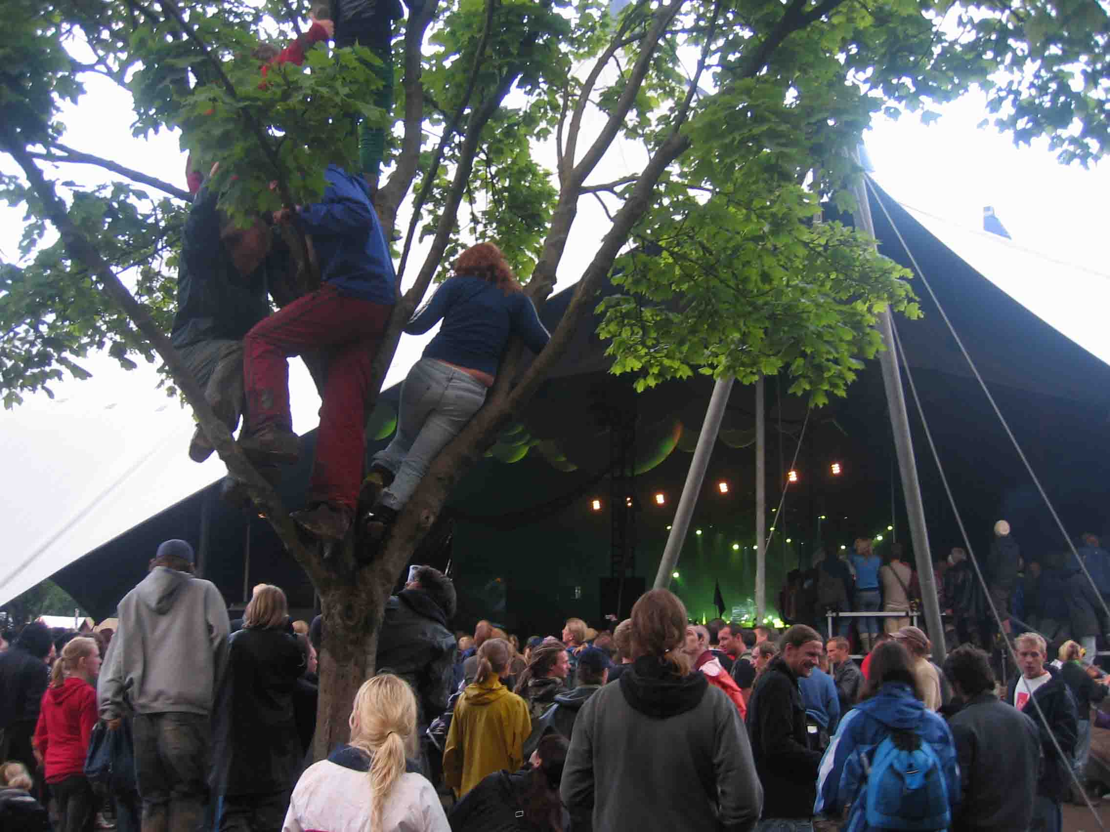 The 'green tent' at the Roskilde festival 2004.